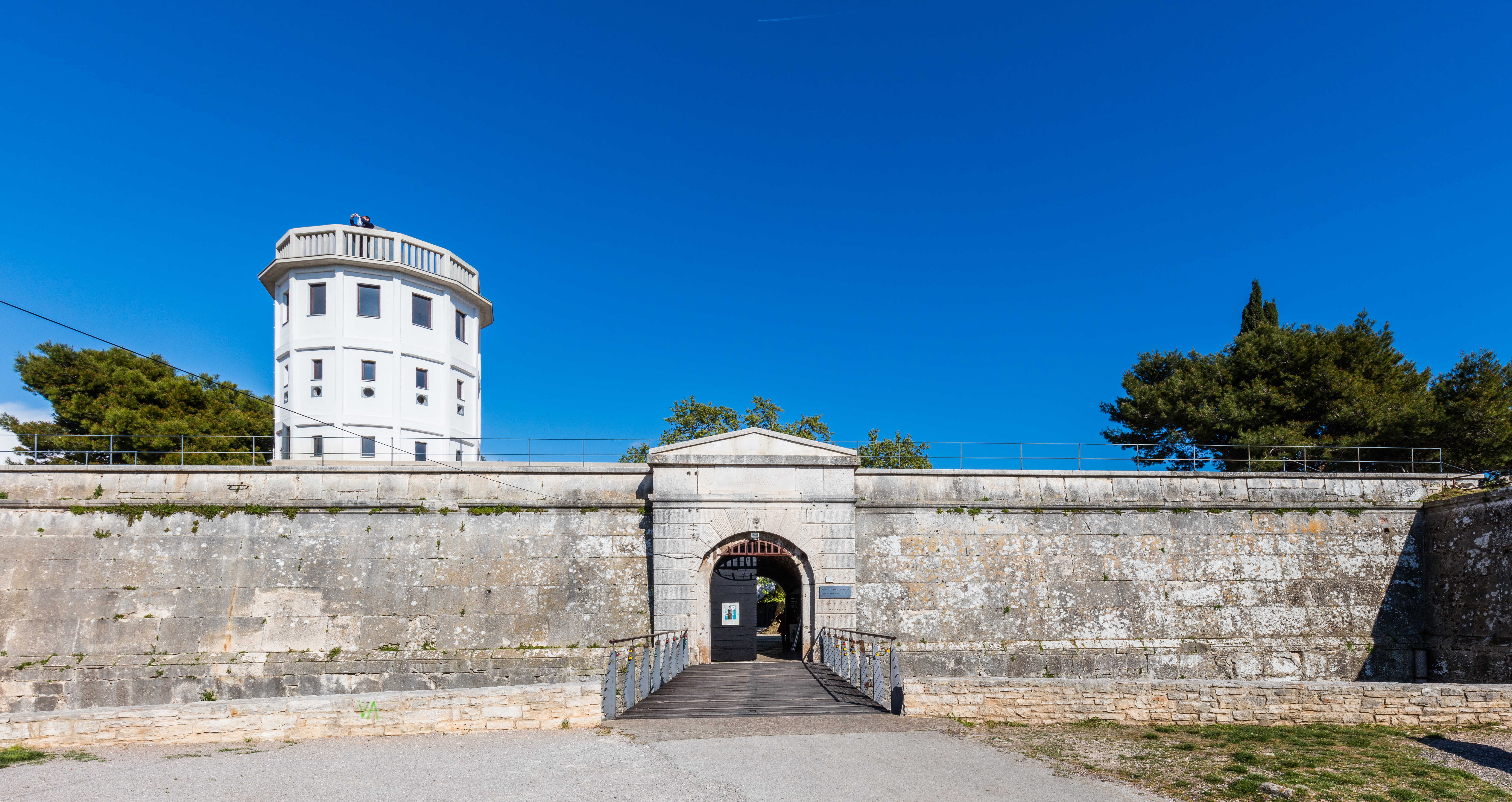 Kaštel fortress, Pula, Croatia. This is a a photo of a cultural heritage in Croatia with ID: Z-5638